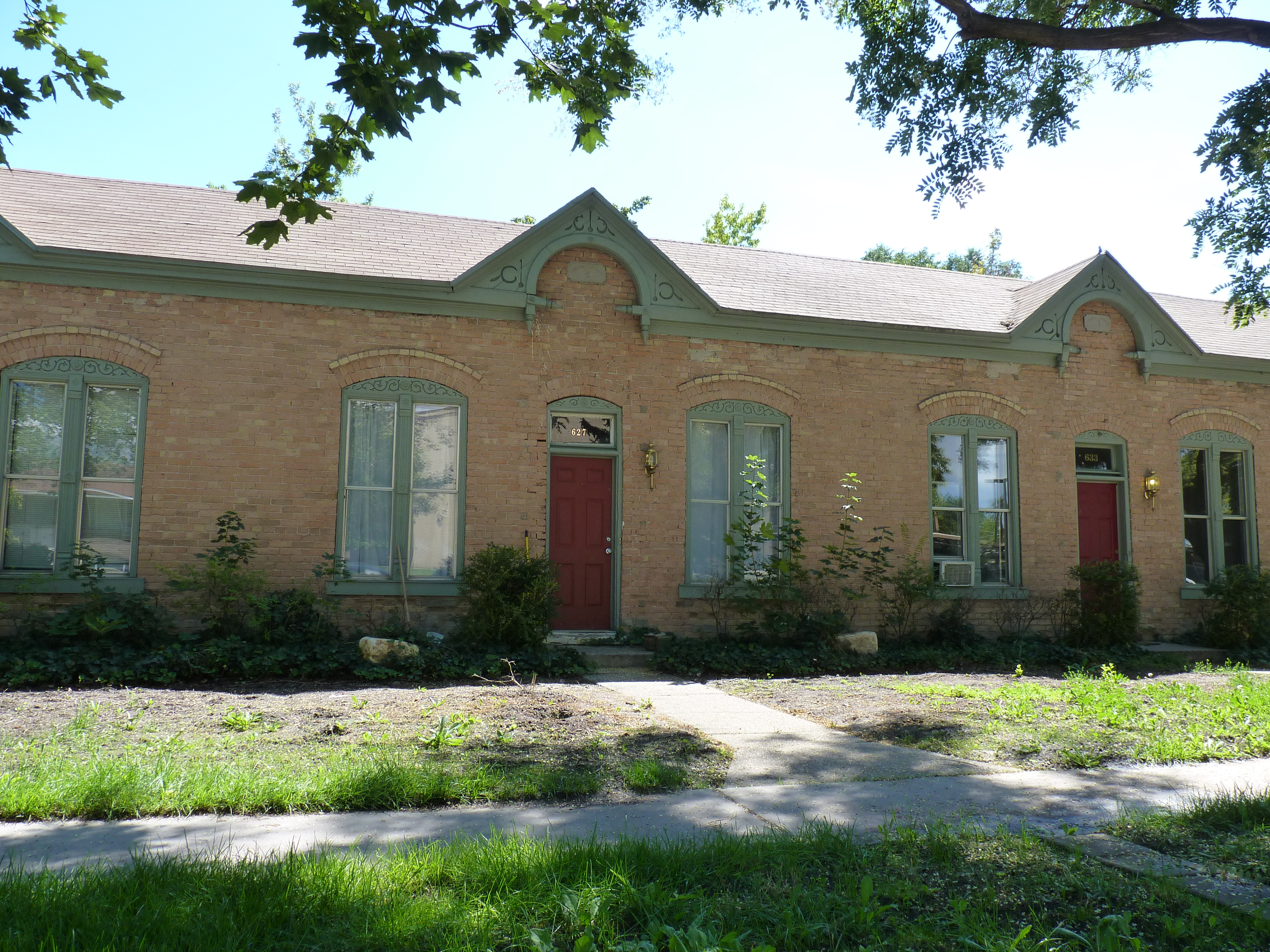 The Silver Row Apartments are located between 621 and 645 West and 100 North. These apartments are located on the Provo City Historic Landmarks Registry, as well as the NRHP.